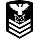 This is sleeve insignia for a Petty Officer First Class in the USNLCC.